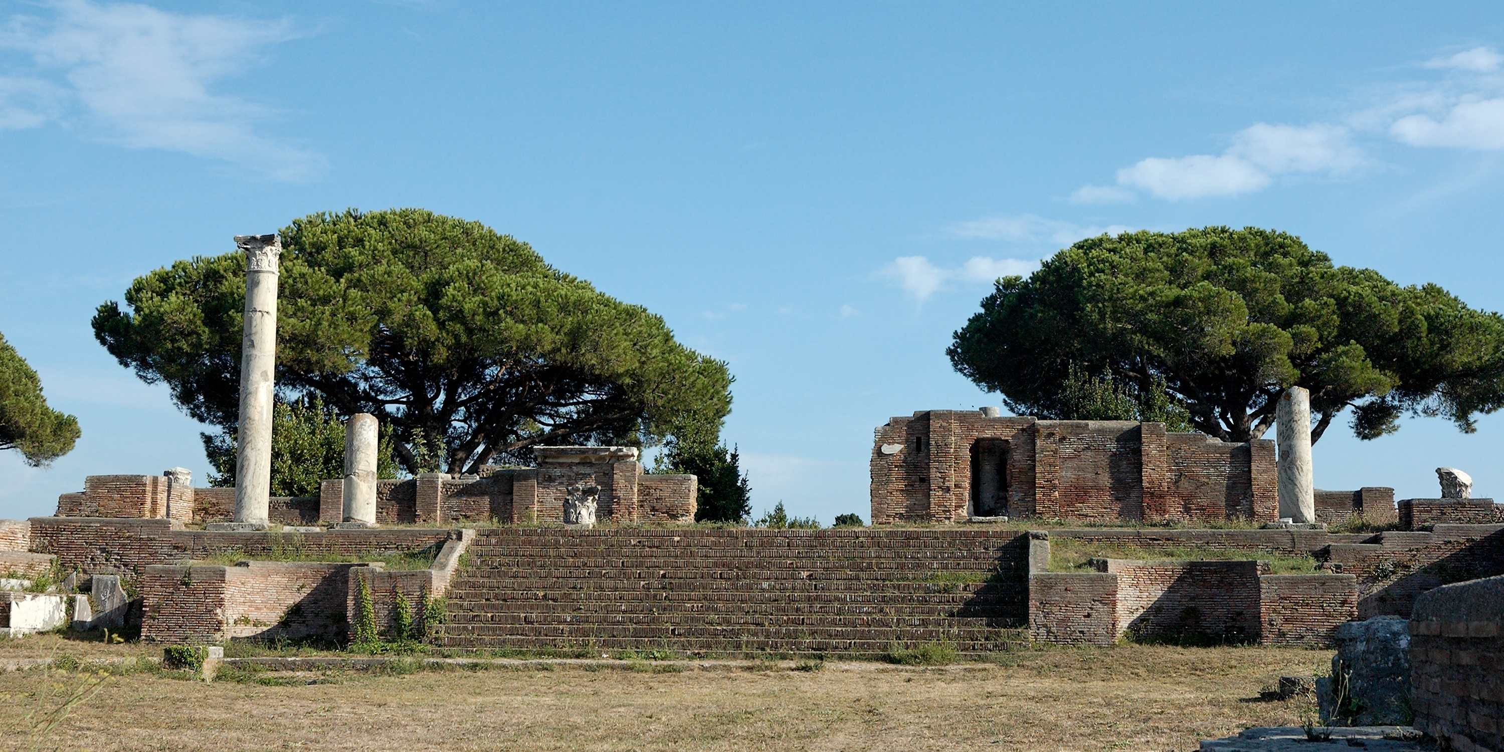 Forecourt of the Round Temple, a huge building of the 3rd century AD, function unknown. Ostia Antica, Latium, Italy.